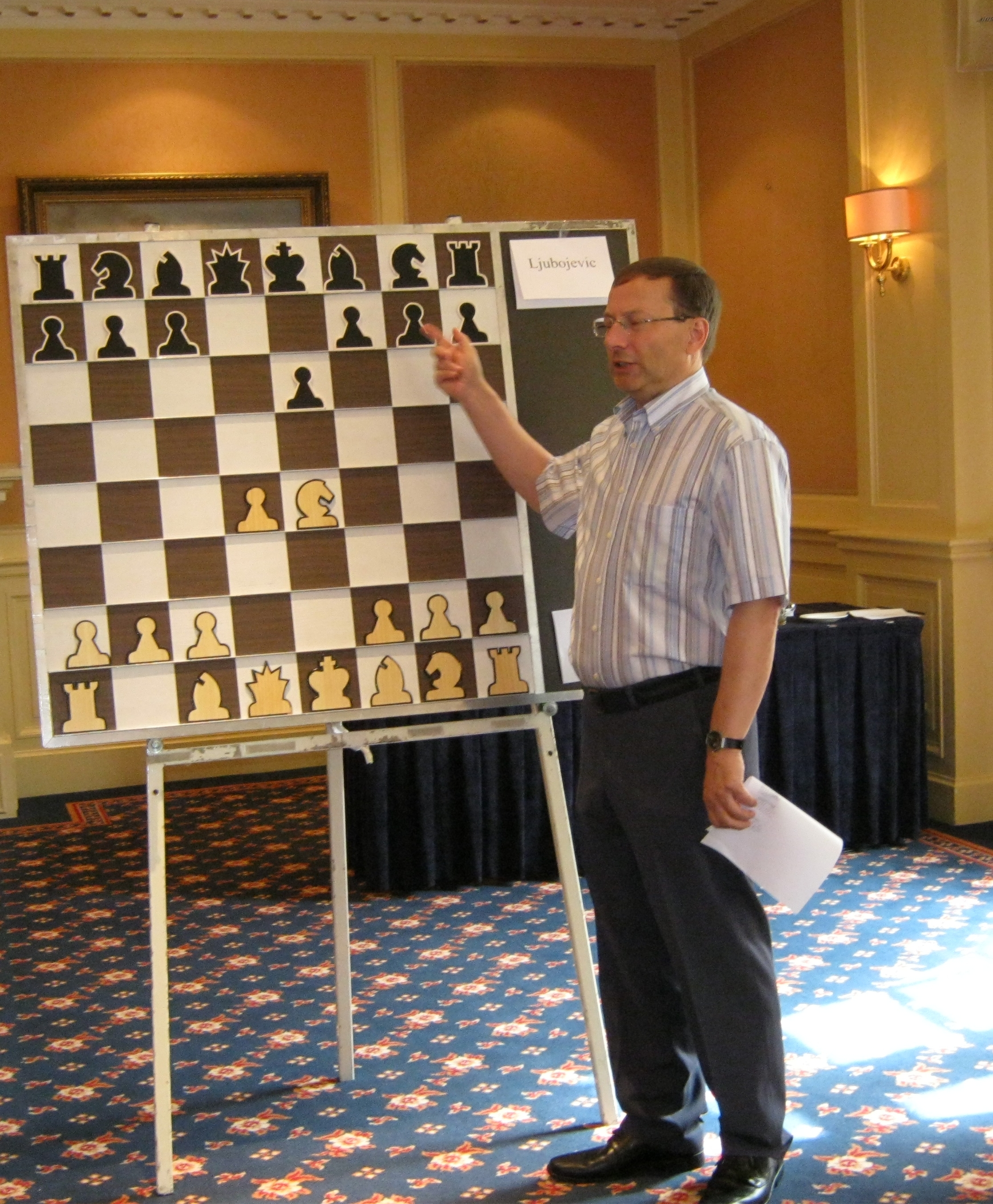 Cor van Wijgerden, chess player from the Netherlands